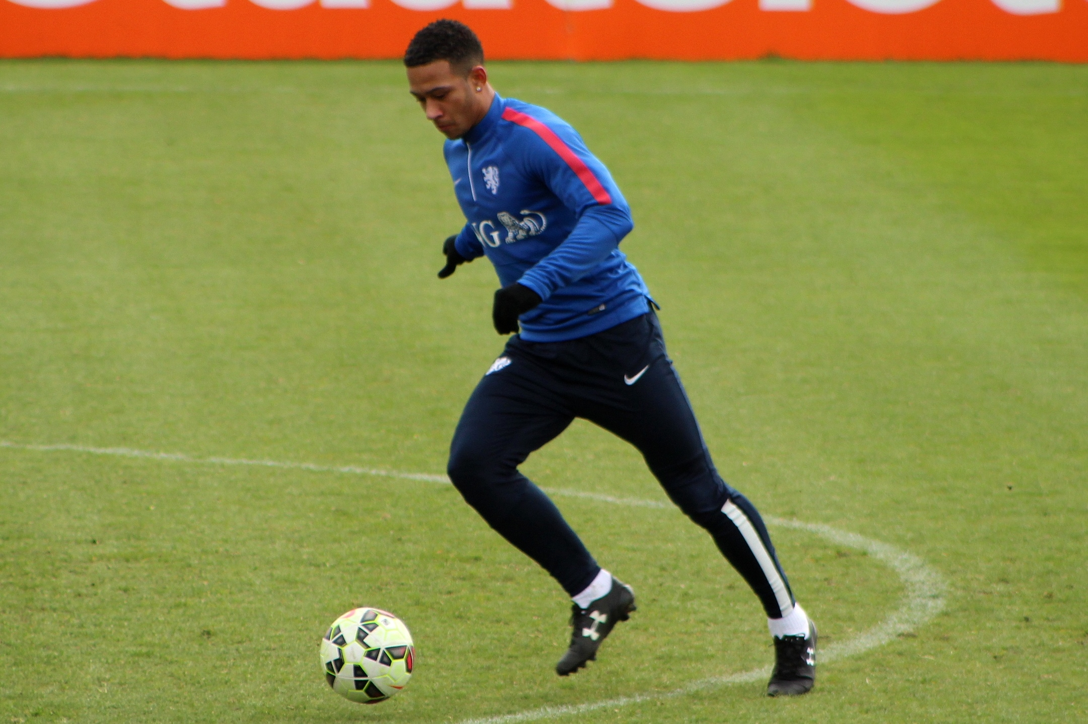 Memphis Depay training with the Netherlands national team on 30 March 2015.